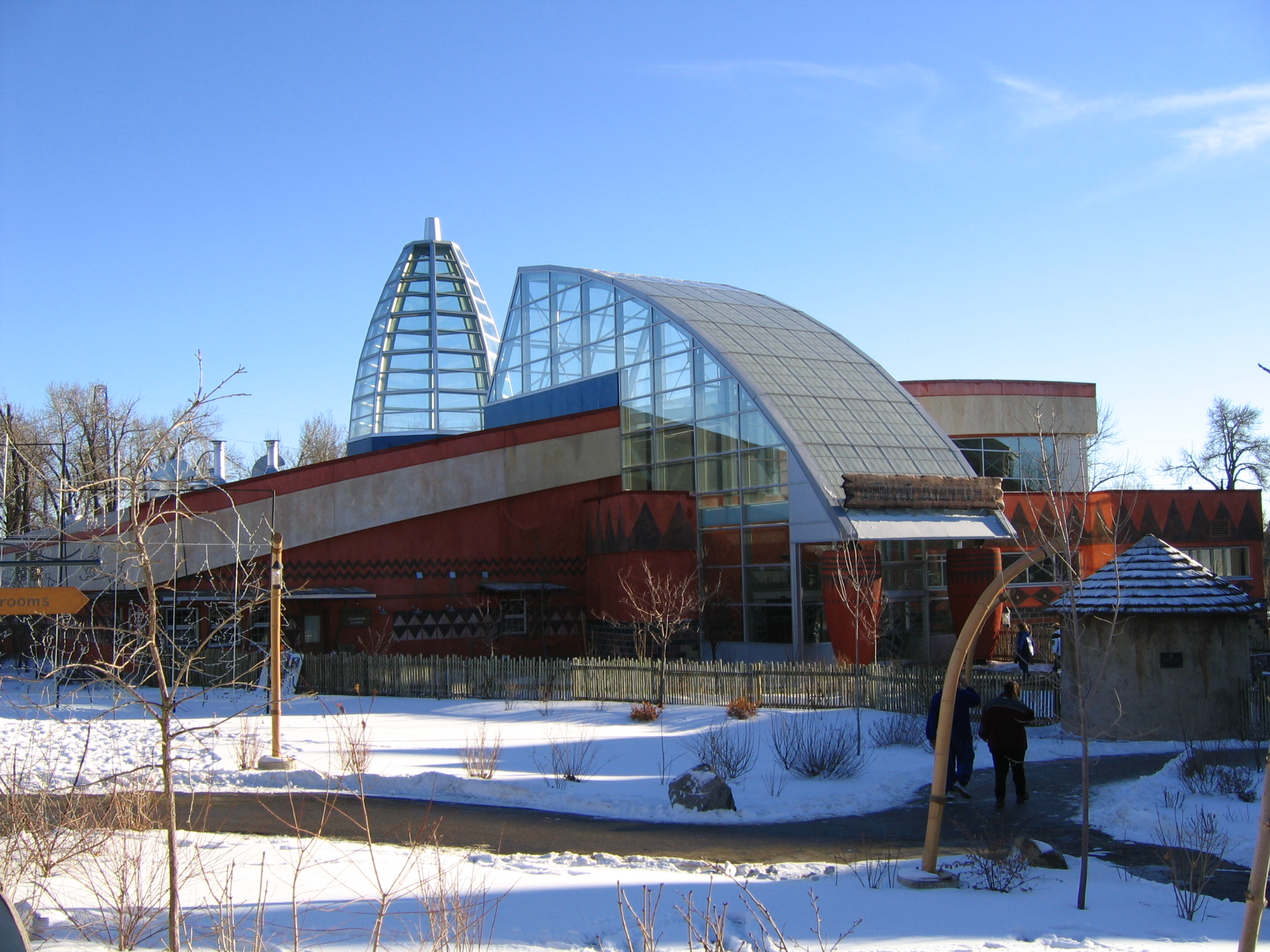 Calgary Zoo